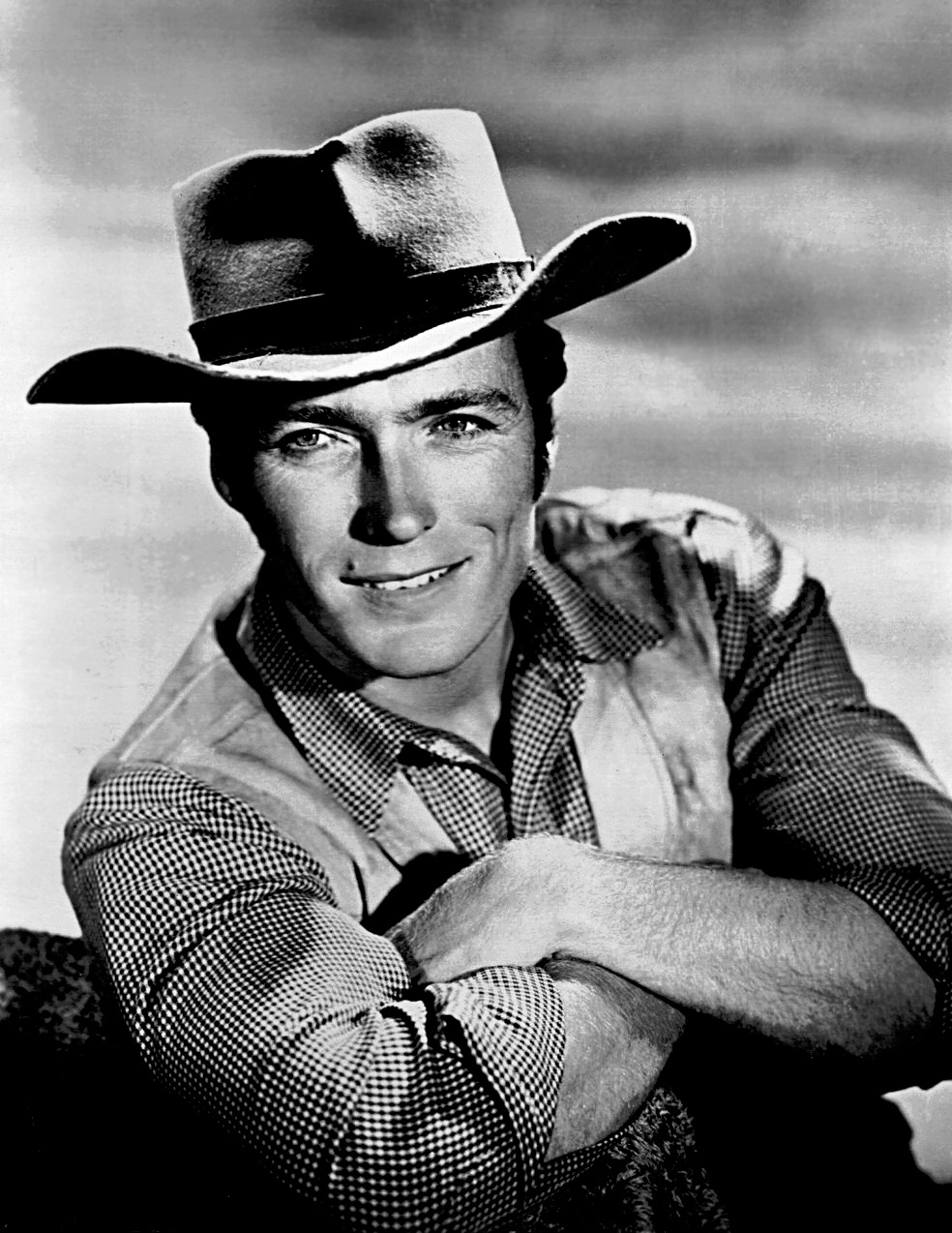 Original publicity photo of Clint Eastwood for Rawhide.